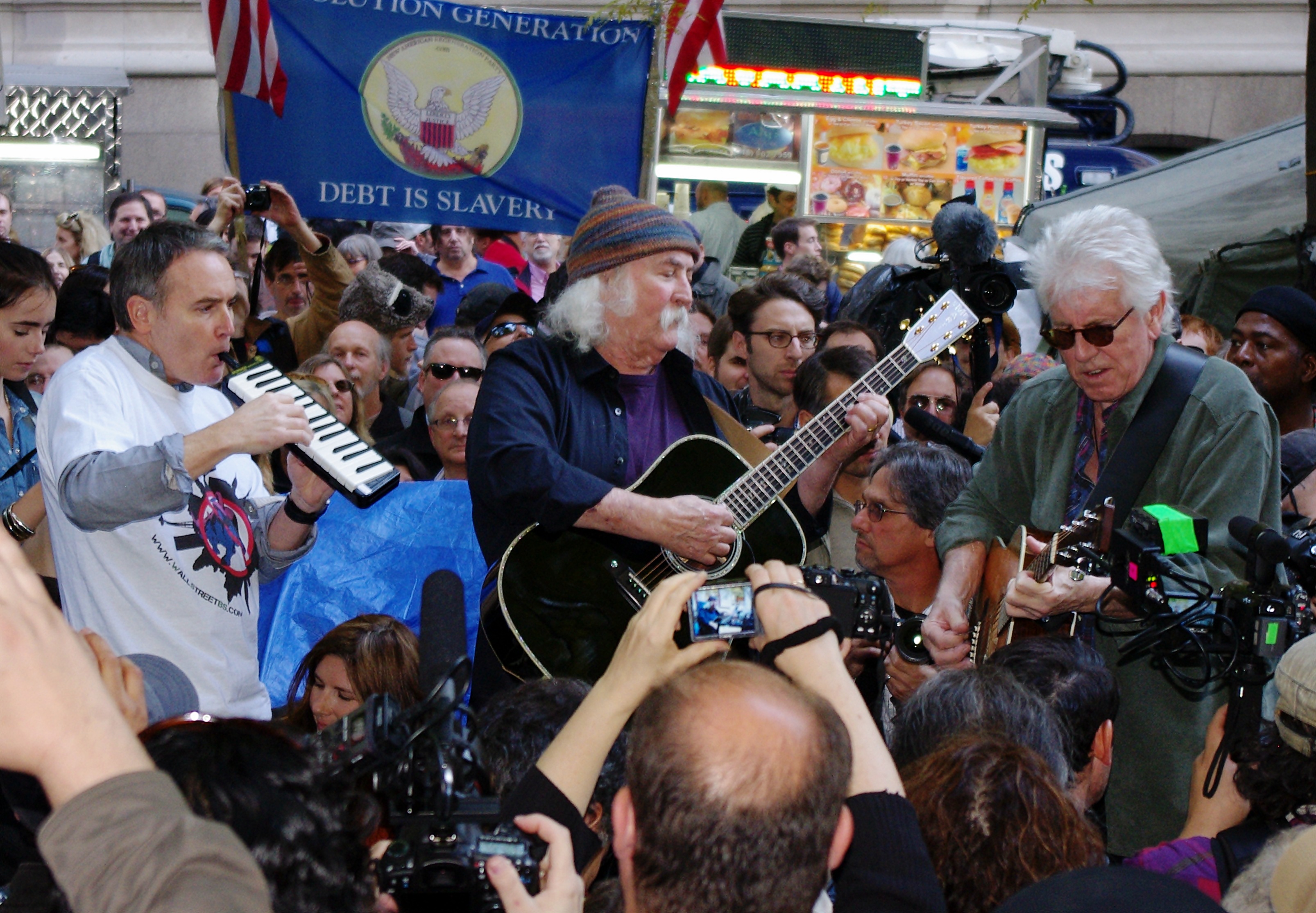 David Crosby and Graham Nash play Occupy Wall Street on Tuesday, November 8.